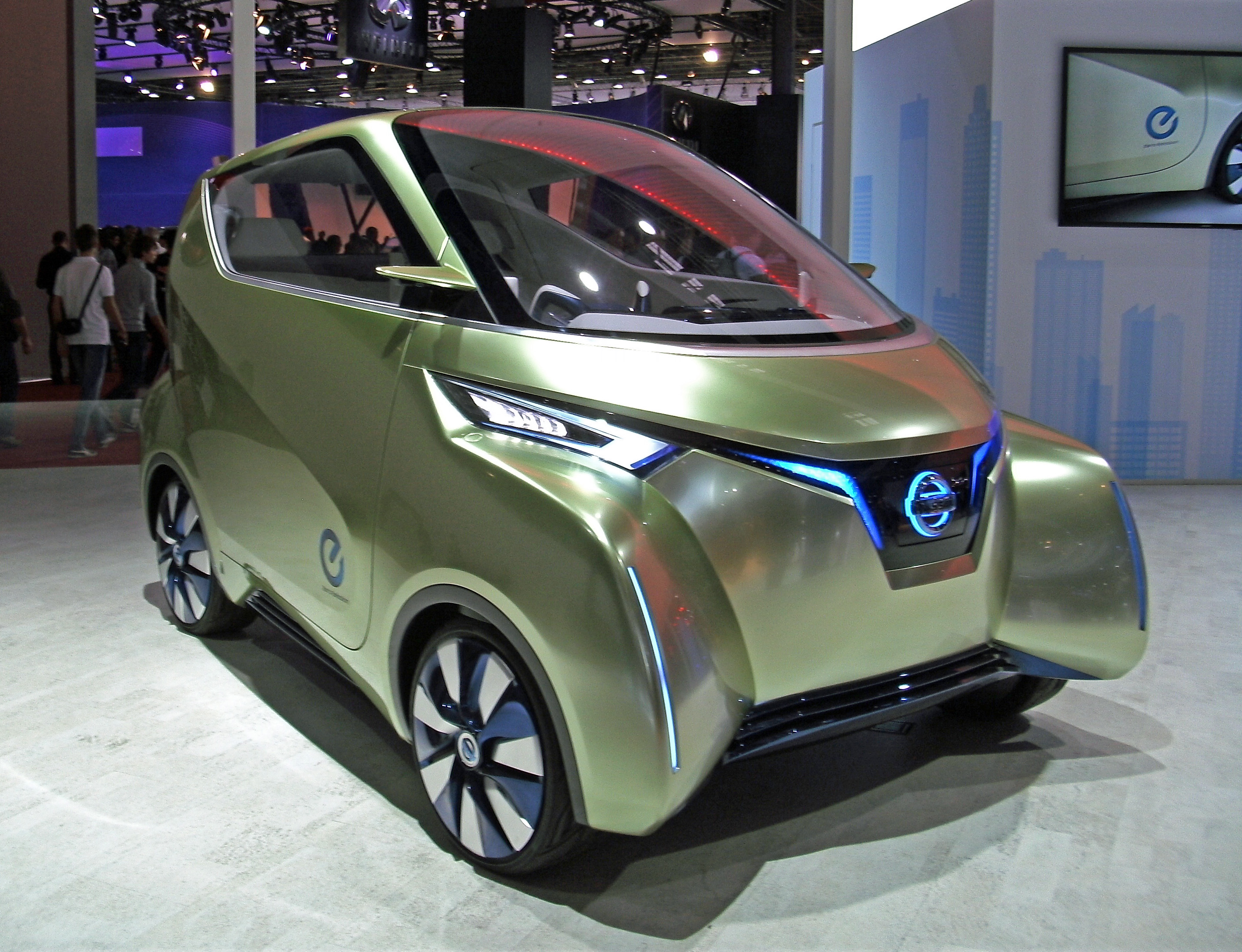 Nissan Pivo 3 at 2012 Paris Motor Show